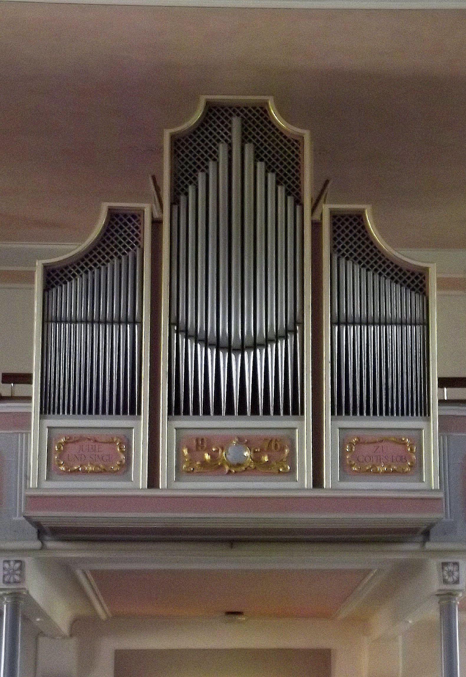 Interior of the roman catholic church in Otzenhausen, Saarland